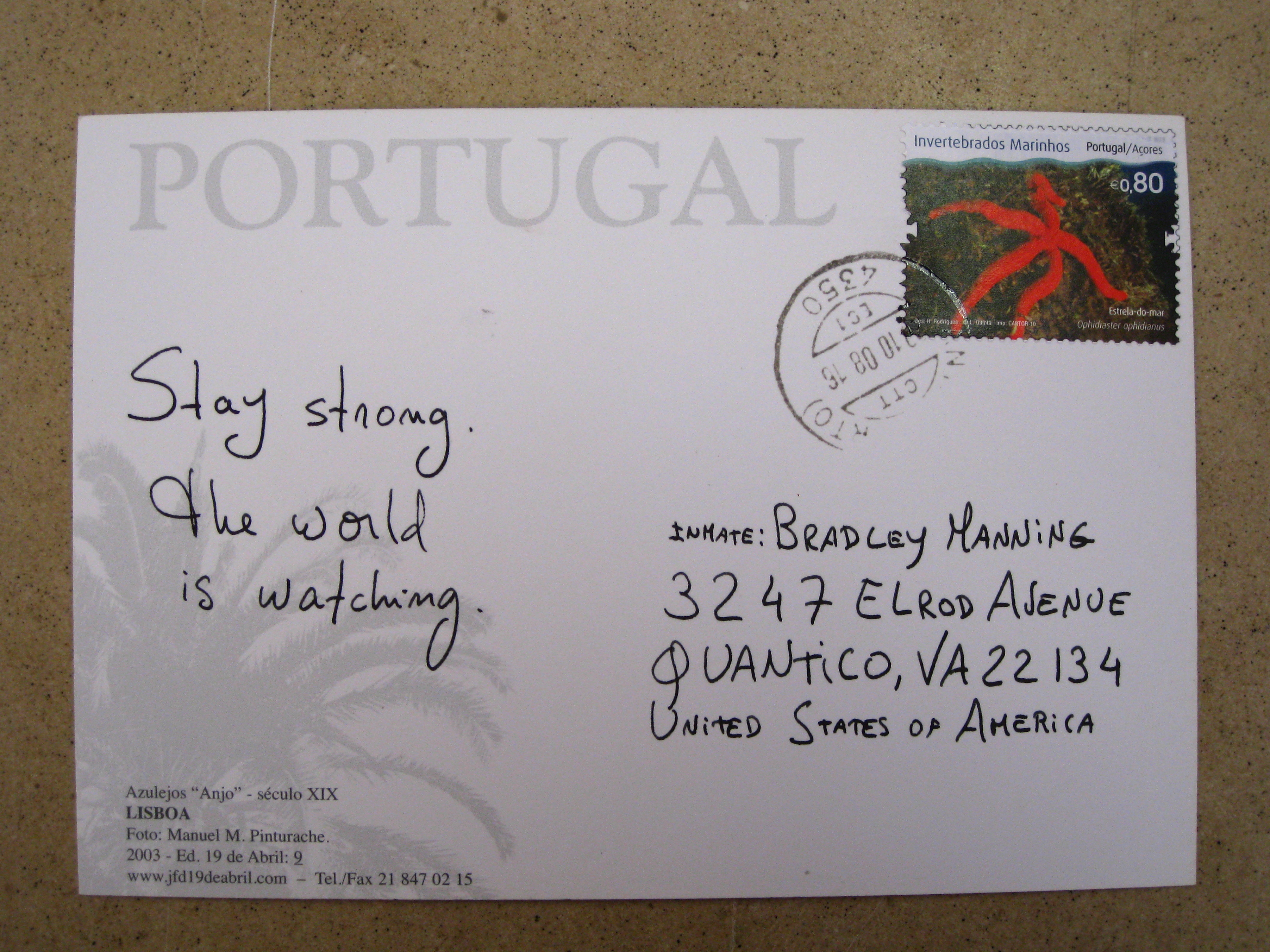 Support for Chelsea Manning via postcard from Portugal, August 2010 (addressed to former name "Bradley Manning" as the holding facility only accepts mail addressed to that name)